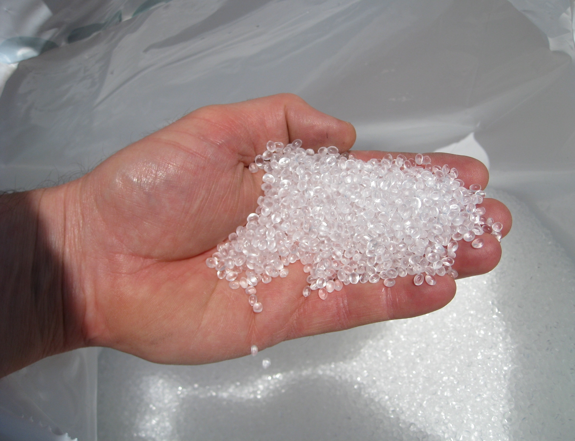 Ethylene-vinyl acetate copolymer (EVA) granules from a 25 kg plastic bag.